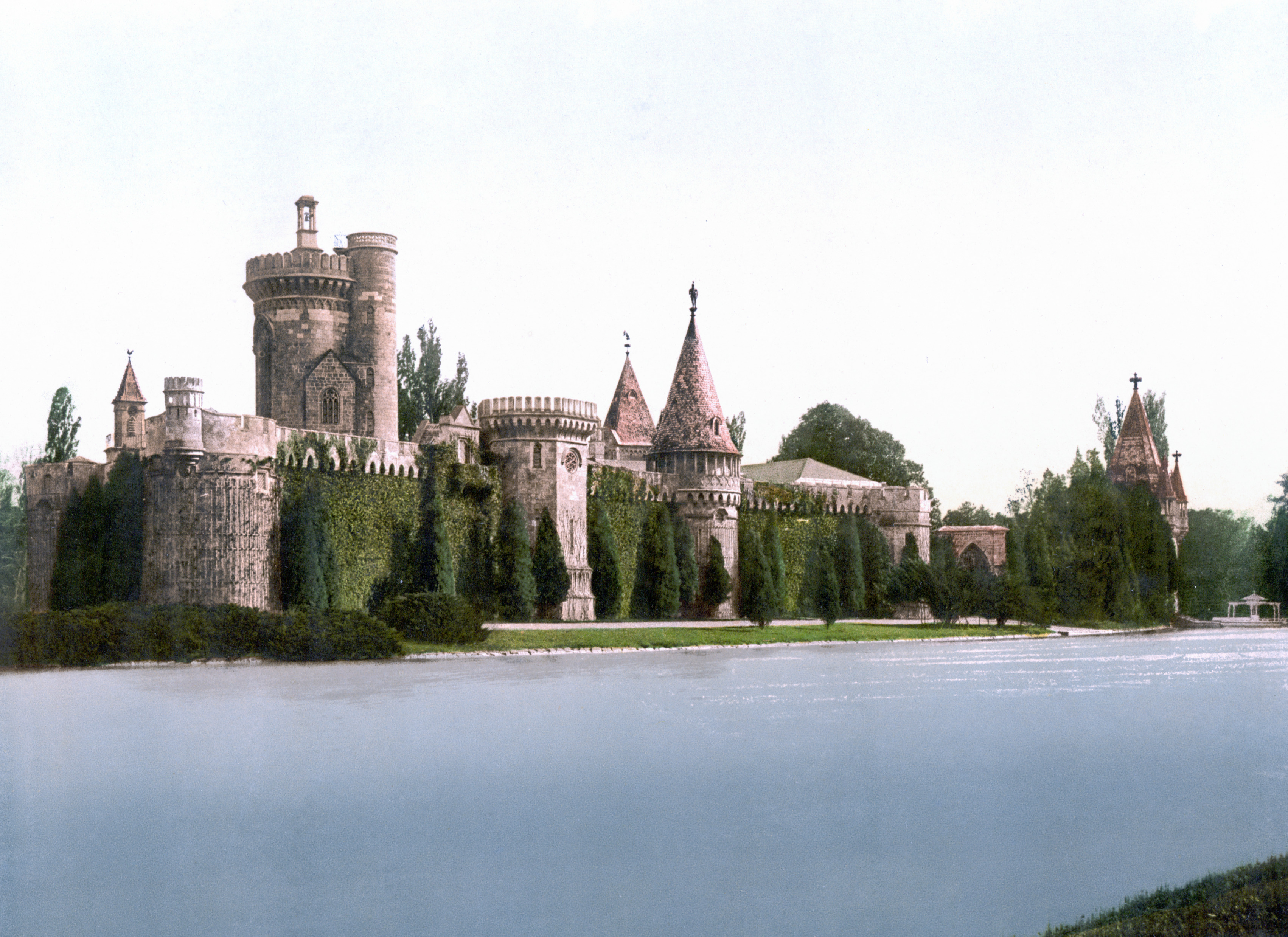 Object location48° 03′ 36.72″ N, 16° 21′ 34.56″ E